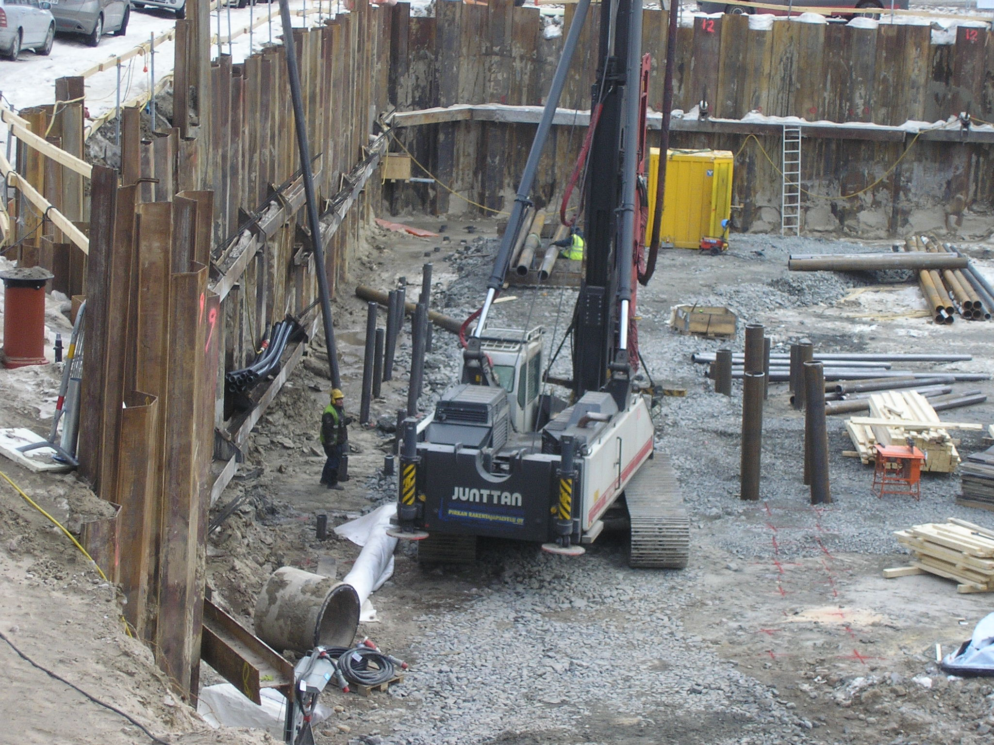 Junttan piling machine Jyväskylä, Finland